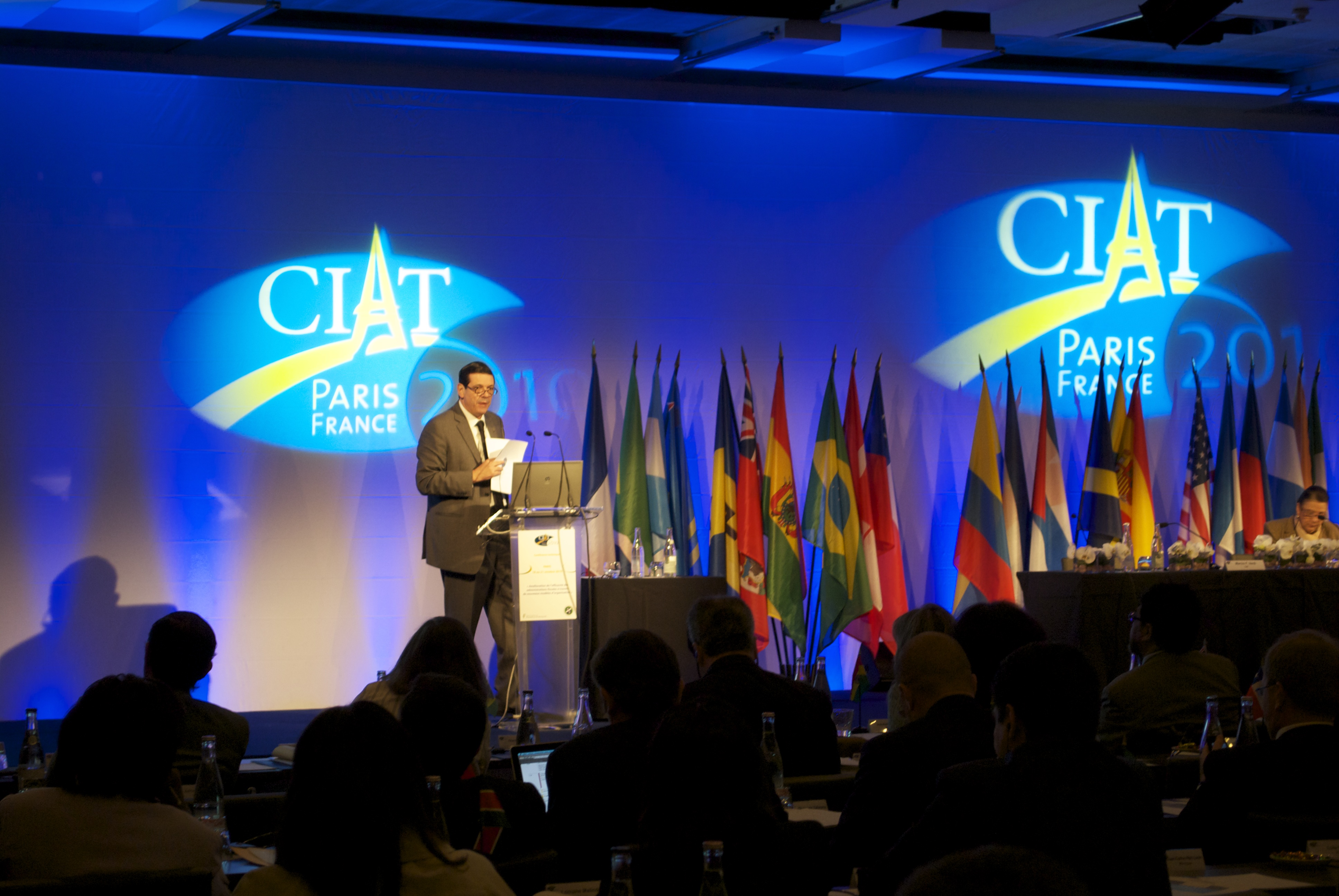 Technical Conference in Paris